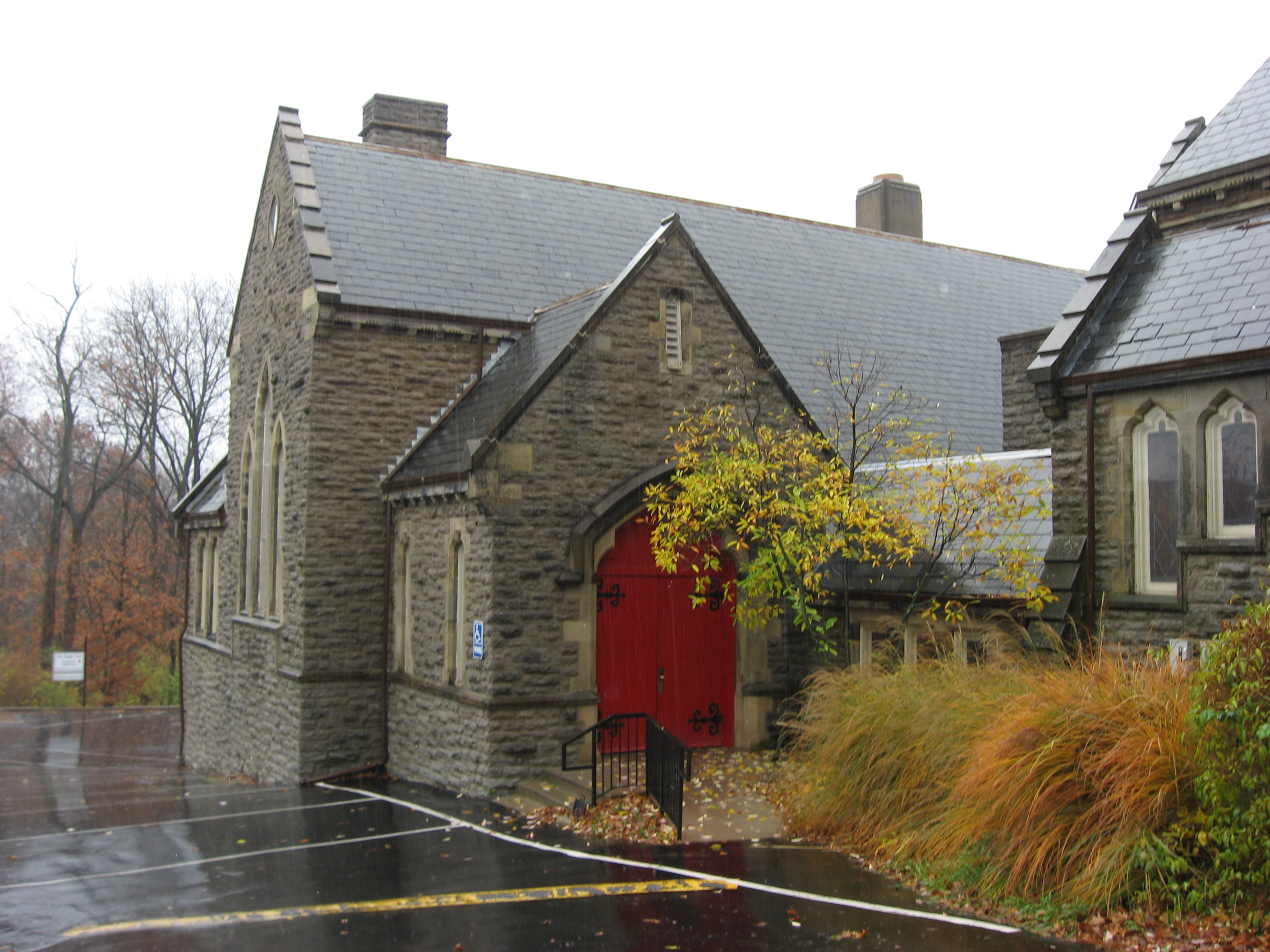 Front of the Calvary Episcopal Church Sunday School, located at the rear of Calvary Episcopal Church at 3770 Clifton Avenue in the Clifton neighborhood of Cincinnati, Ohio, United States. Designed by Samuel Hannaford and built in 1887, it is listed on the National Register of Historic Places, and it is part of a Register-listed historic district, the Clifton Avenue Historic District.